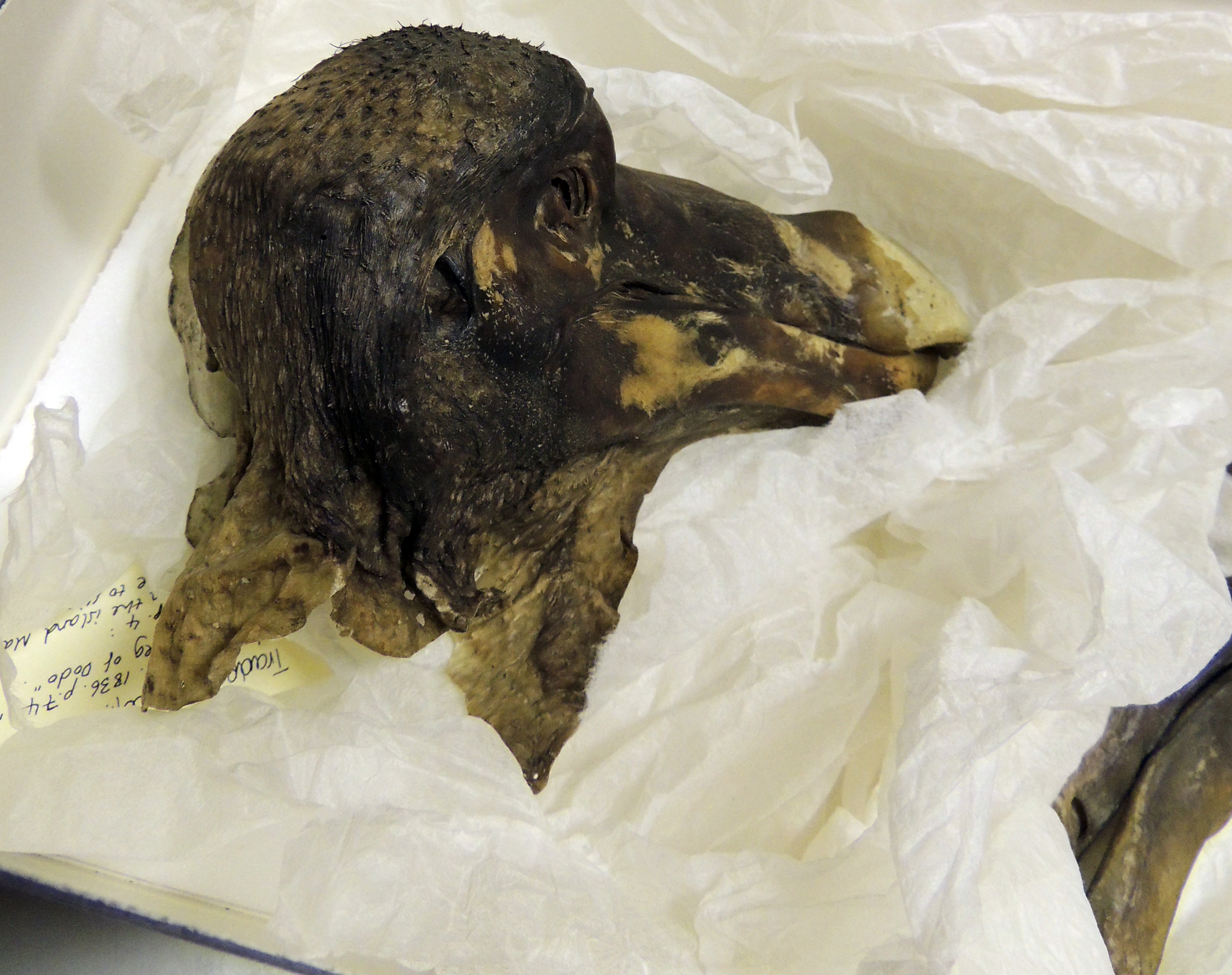 The remains of a dodo from the Oxford University Museum of Natural History storage. The skin has been removed from the underside of this portion of the head.